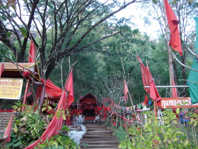 Shan cho Pho Padang .Lom Sak,Phetchabun, Thailand